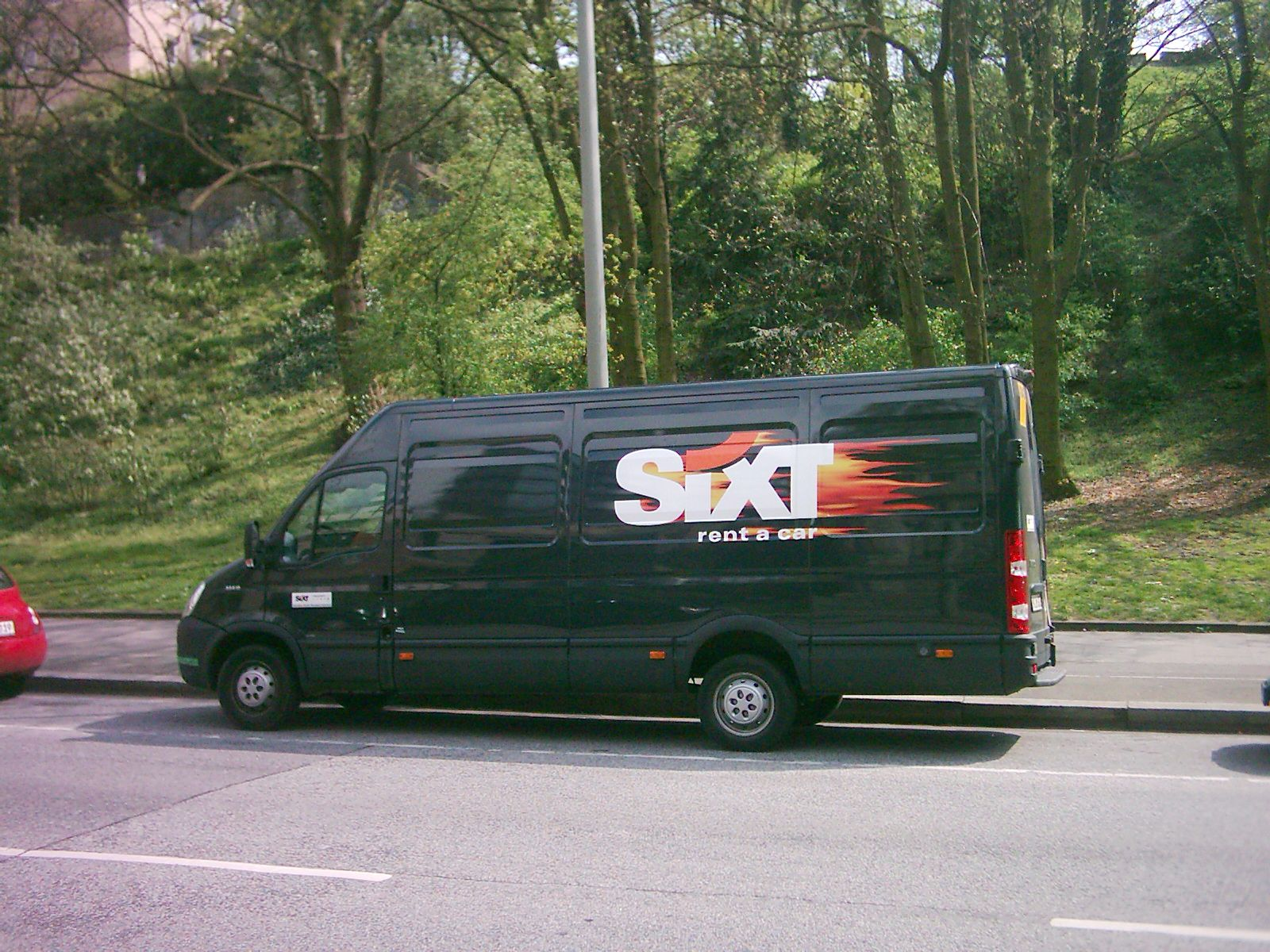 A Sixt rent automobile. Hamburg, Germany.